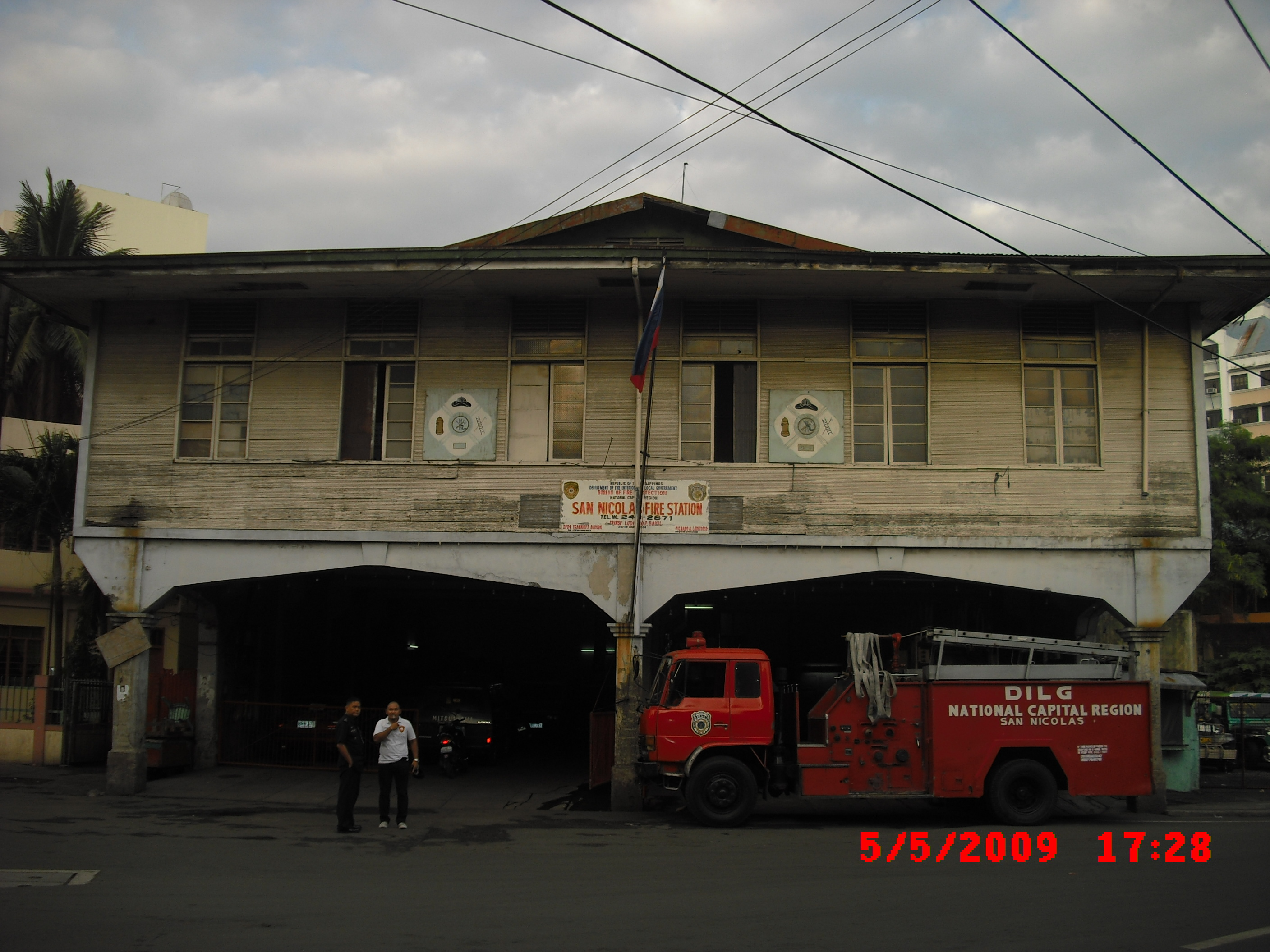 The original structure and façade was the same since its structure in 1901.